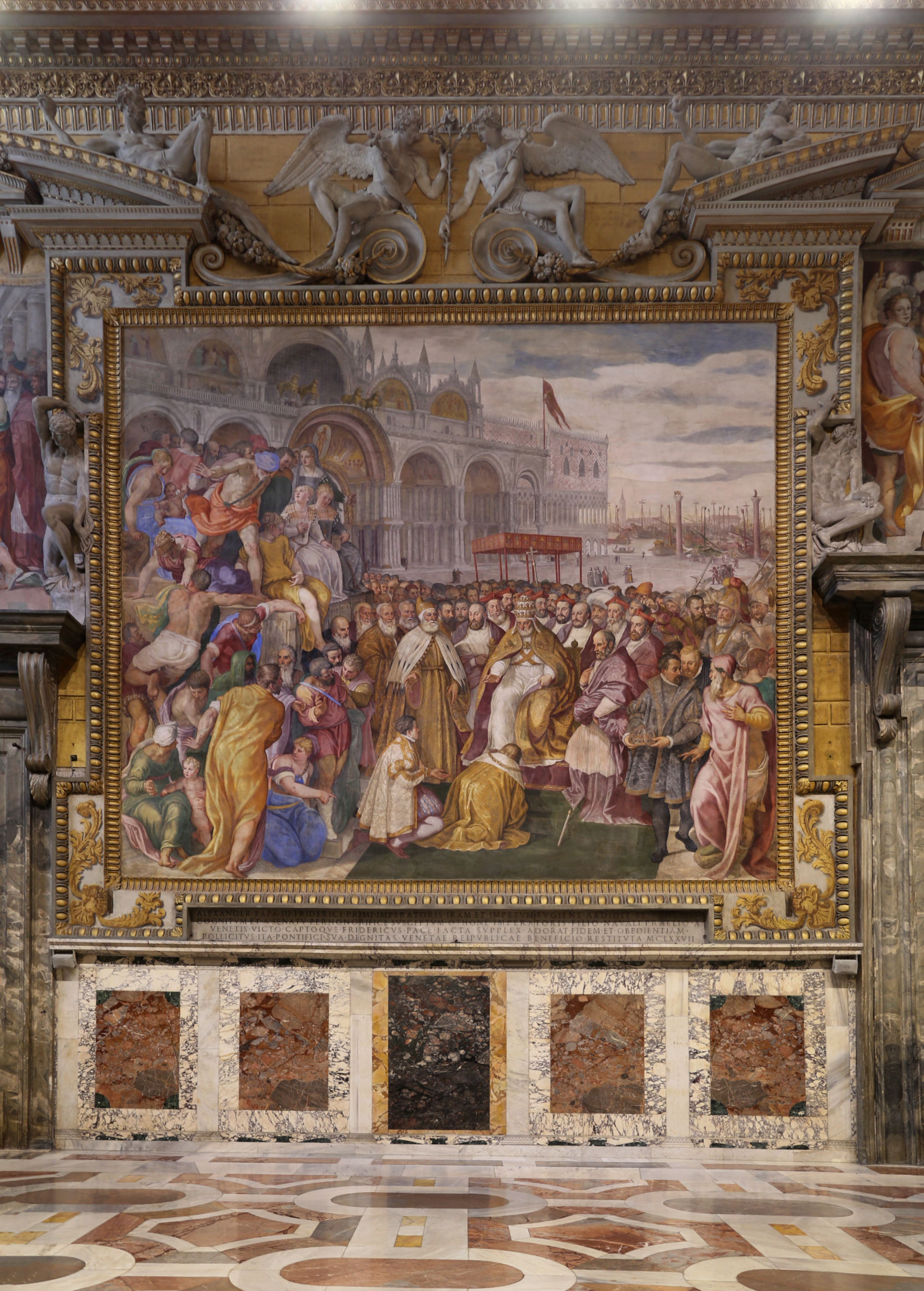 Sala Regia - Frescos by Francesco Salviati and workshop